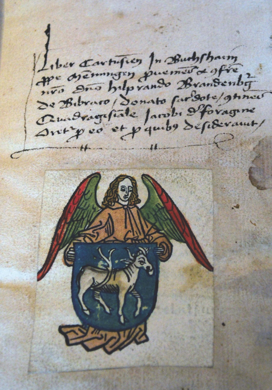 Bookplate for Hilprand Brandenburg of Biberach , woodcut, black printing ink, and hand coloring on paper (Germany, 1480). Bookplate is in Jacobus de Voragine’s Sermones quadragesimales (Bopfingen, Württemberg, 1408)